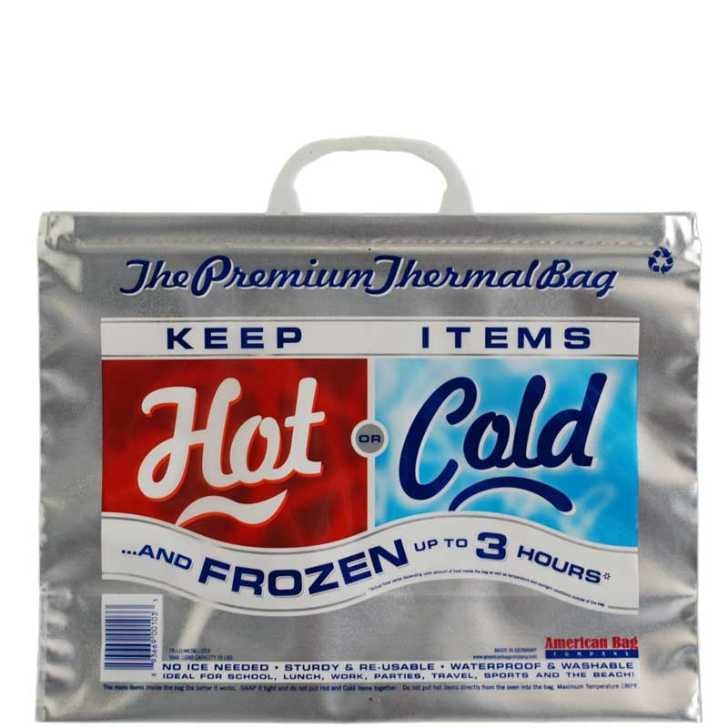 American Bag Company - Hot or Cold Thermal Bag, Small (15" x 12" x 6")